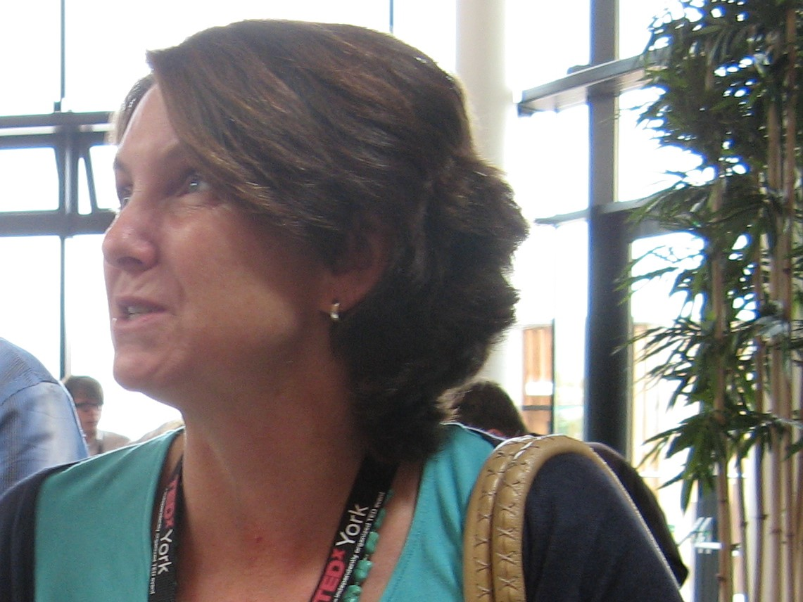 Professor Nicola Spence